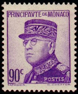 Stamp of Louis II of Monaco